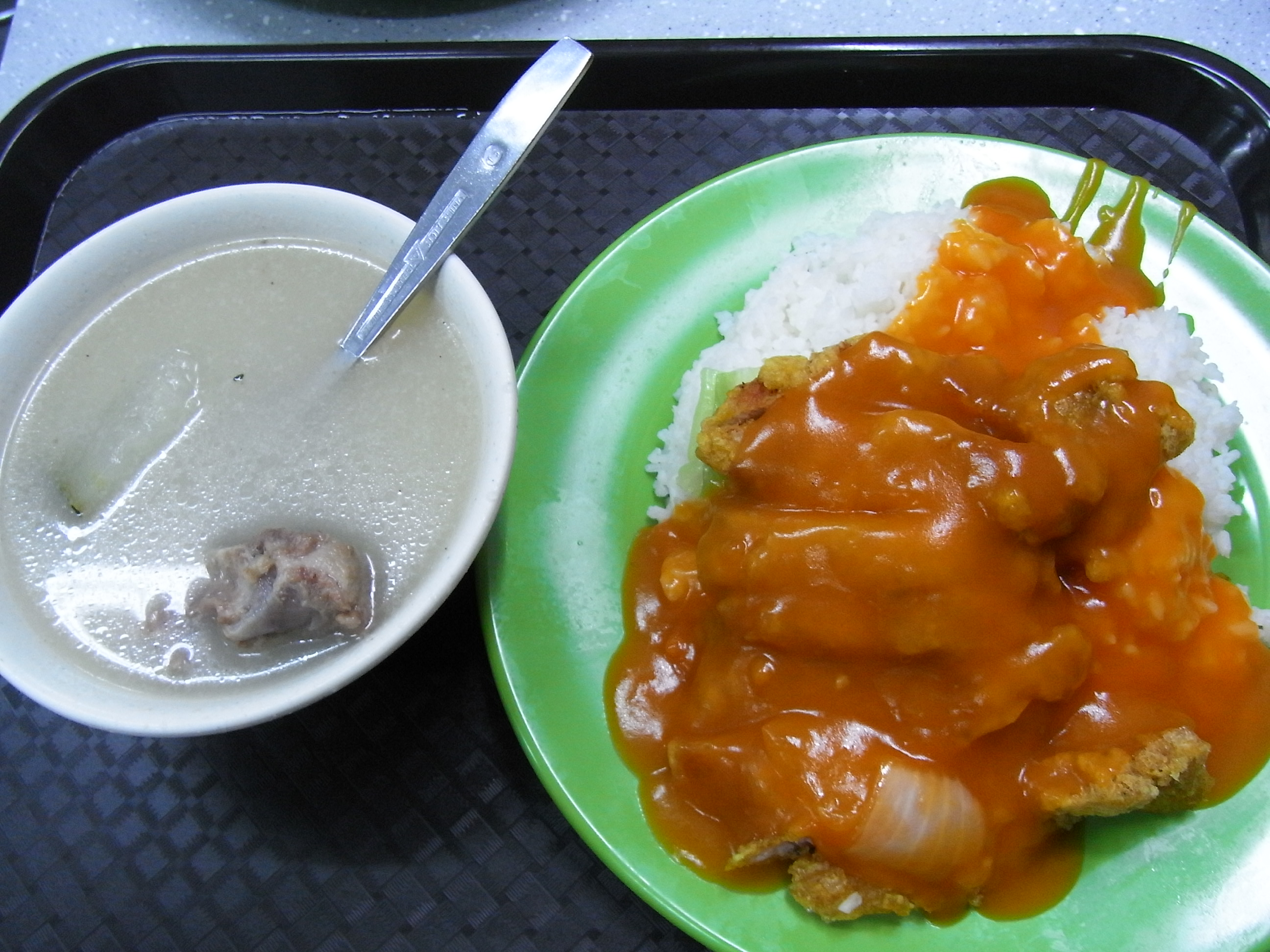 快餐店, Fast food restaurant, Hong Kong